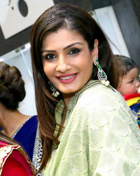 Raveena Tandon inaugurates the new store of 'Zaira Diamond' in Delhi